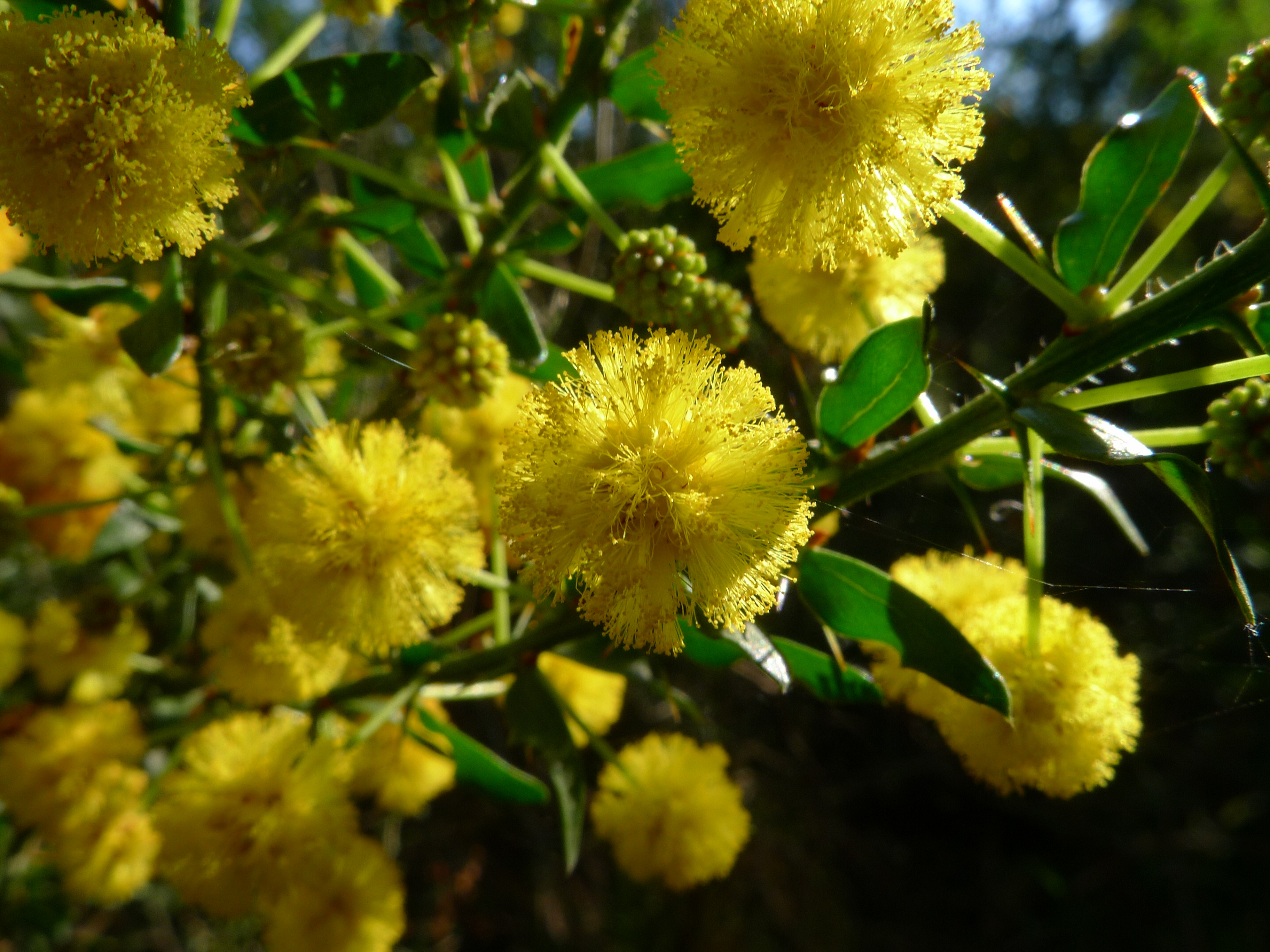 Kangaroo Thorn, Acacia paradoxa. Starlight Reserve, Rowville Victoria Australia, September 2011.